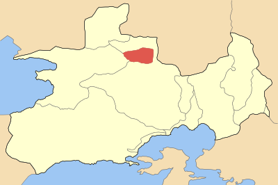 Locator map of Oinois community (Κοινότητα Οινόης) at West Attica perfecture, Greece.